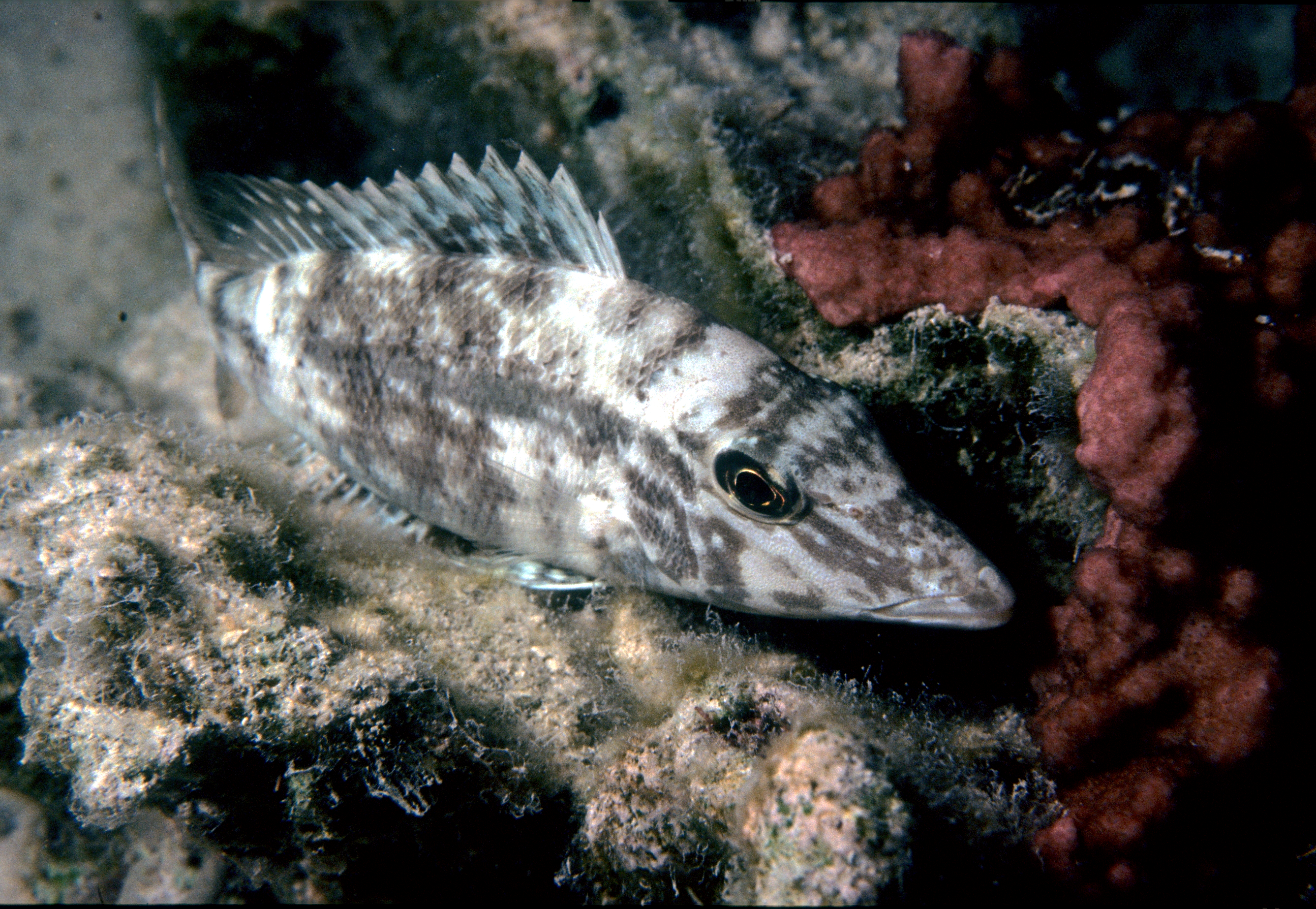 One Tree Reef. Smalltooth emperor (Lethrinus microdon) mottled coloration, night appearance.